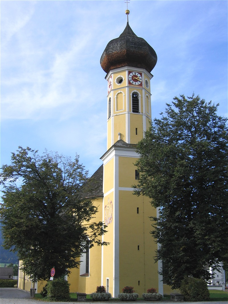 Fischbachau, St Martin Parish Church (until 1803 Church of the Benedictine provosty) from south-east.